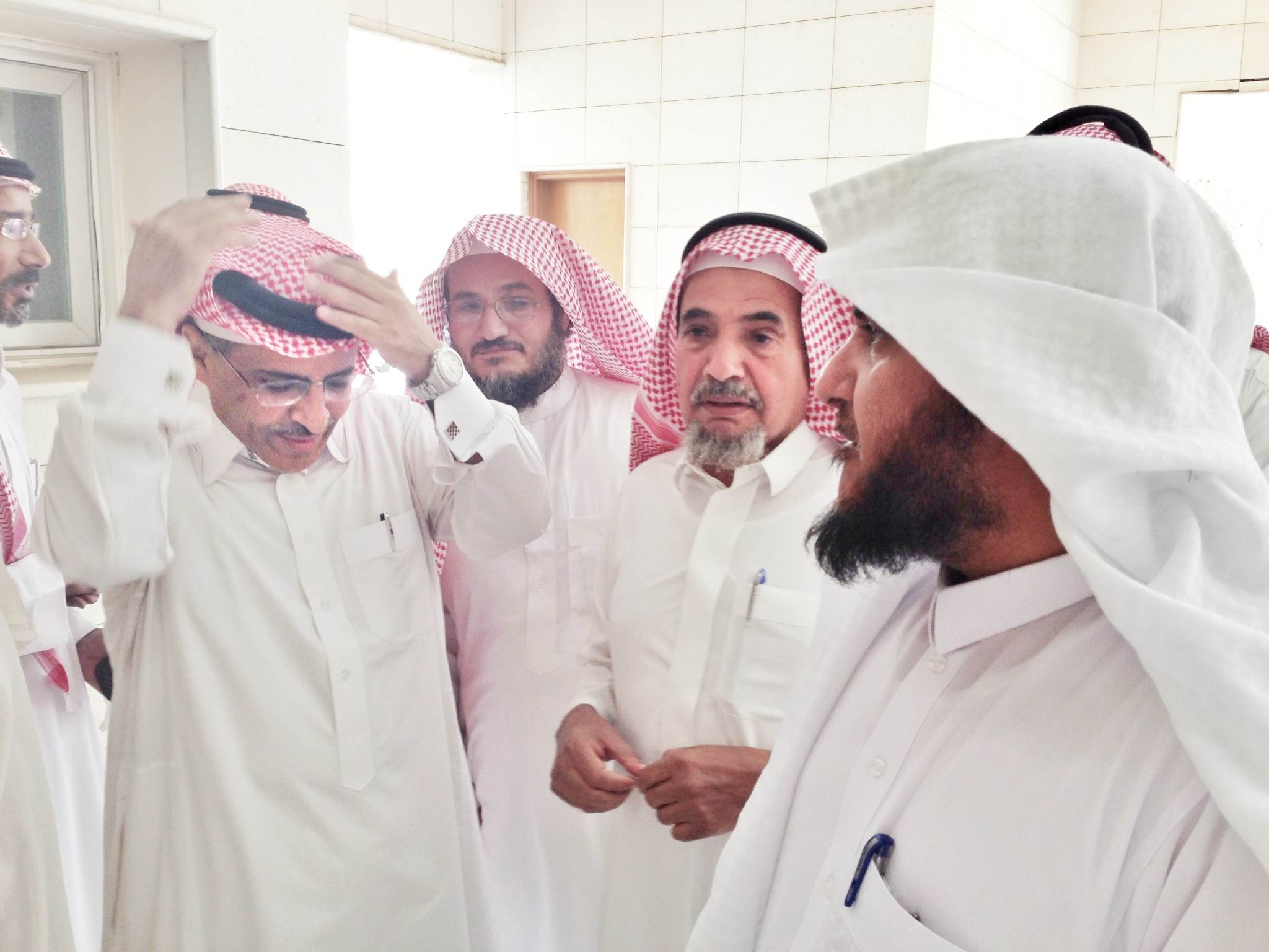 Mohammad al-Qahtani (left) and Abdullah al-Hamid (third on left) right before they entered the courtroom.